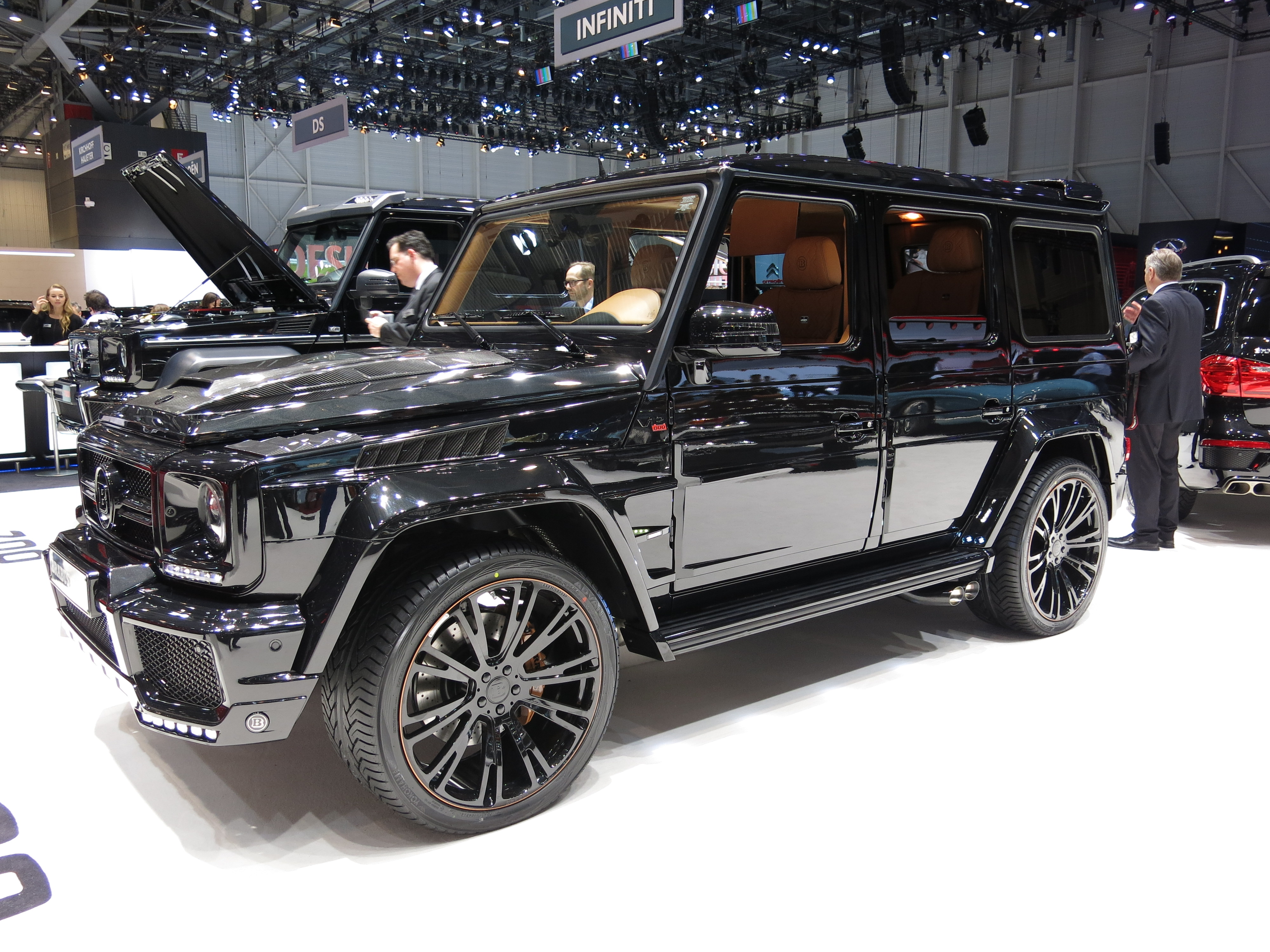 Geneva Motor Show 2015 (photo taken on the first press day)